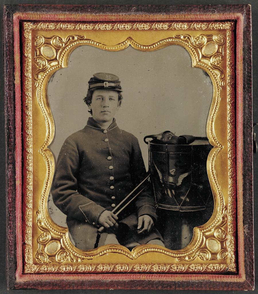 [Unidentified young drummer boy in Union uniform] [between 1861 and 1865] 1 photograph : sixth-plate tintype ; 9.5 x 8.3 cm (case) Notes: Title devised by Library staff. Use digital images. Original served only by appointment because material requires special handling. For more information see: ( Gift; Tom Liljenquist; 2010; (DLC/PP-2010:105). Exhibited: "The Last Full Measure : Civil War Photographs from the Liljenquist Family Collection" at the Library of Congress, Washington, D.C., 2011. Subjects: United States.--Army.--People--1860-1870. Soldiers--Union--1860-1870. Military uniforms--Union--1860-1870. Musicians--1860-1870. Drums (Musical instruments)--1860-1870. United States--History--Civil War, 1861-1865--Military personnel--Union. Format: Portrait photographs--1860-1870. Tintypes--Hand-colored--1860-1870. Repository: Library of Congress, Prints and Photographs Division, Washington, D.C. 20540 USA, Part Of: Ambrotype/Tintype filing series (Library of Congress) (DLC) 2010650518 Liljenquist Family collection (Library of Congress) (DLC) 2010650519 More information about this collection is available at Higher resolution image is available (Persistent URL): Call Number: AMB/TIN no. 2647